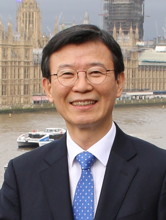 Mr. Moon Seong-hyeok, Minister of Oceans & Fisheries of Republic of Korea